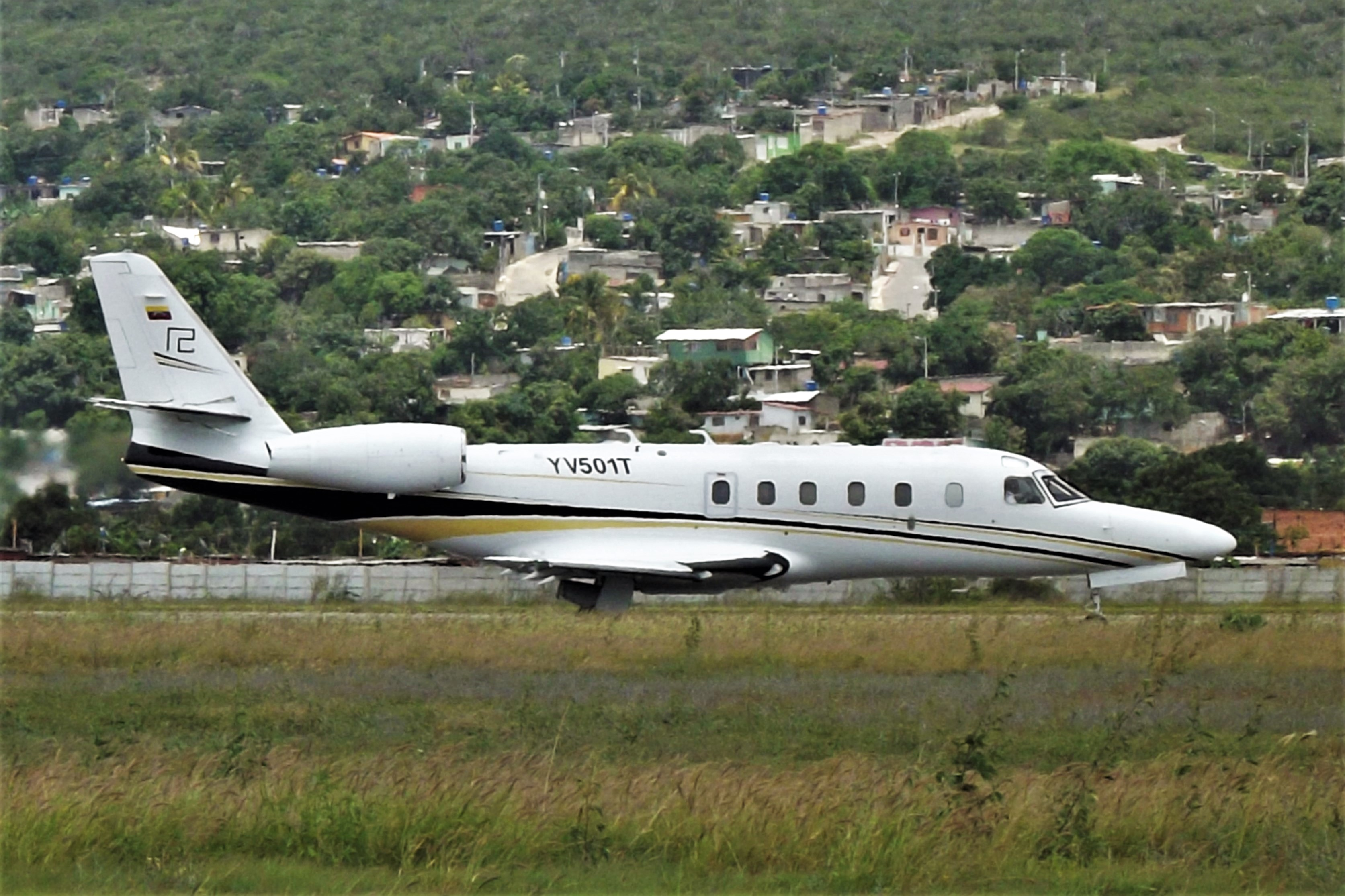 YV501T - IAI 1125 Astra scrolling the Taxiway Jacinto Lara International Airport (SVBM) Barquisimeto - Venezuela.